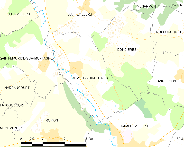 Map of French municipality Roville-aux-Chênes